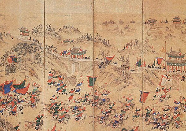 Chinese cavalry and infantry attacking the walls of Pyongyang in 1593, from a Chinese painted screen in the Hizen-Nagoya castle museum